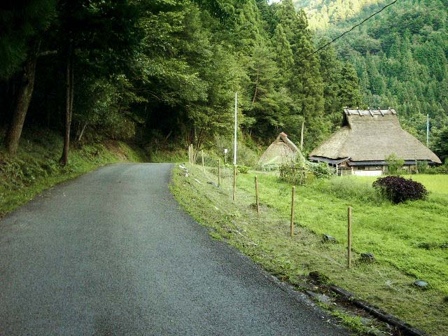 This photo is a view of Japanese Kyoto prefecture route 110 (Kuta-Hirogawara line), west end Kuta. This route's width is narrow, and many slopes. This route has no lighting equipment and we can use only a satellite cellular communications service. This route is almost used limited people, only Kuta inhabitands.